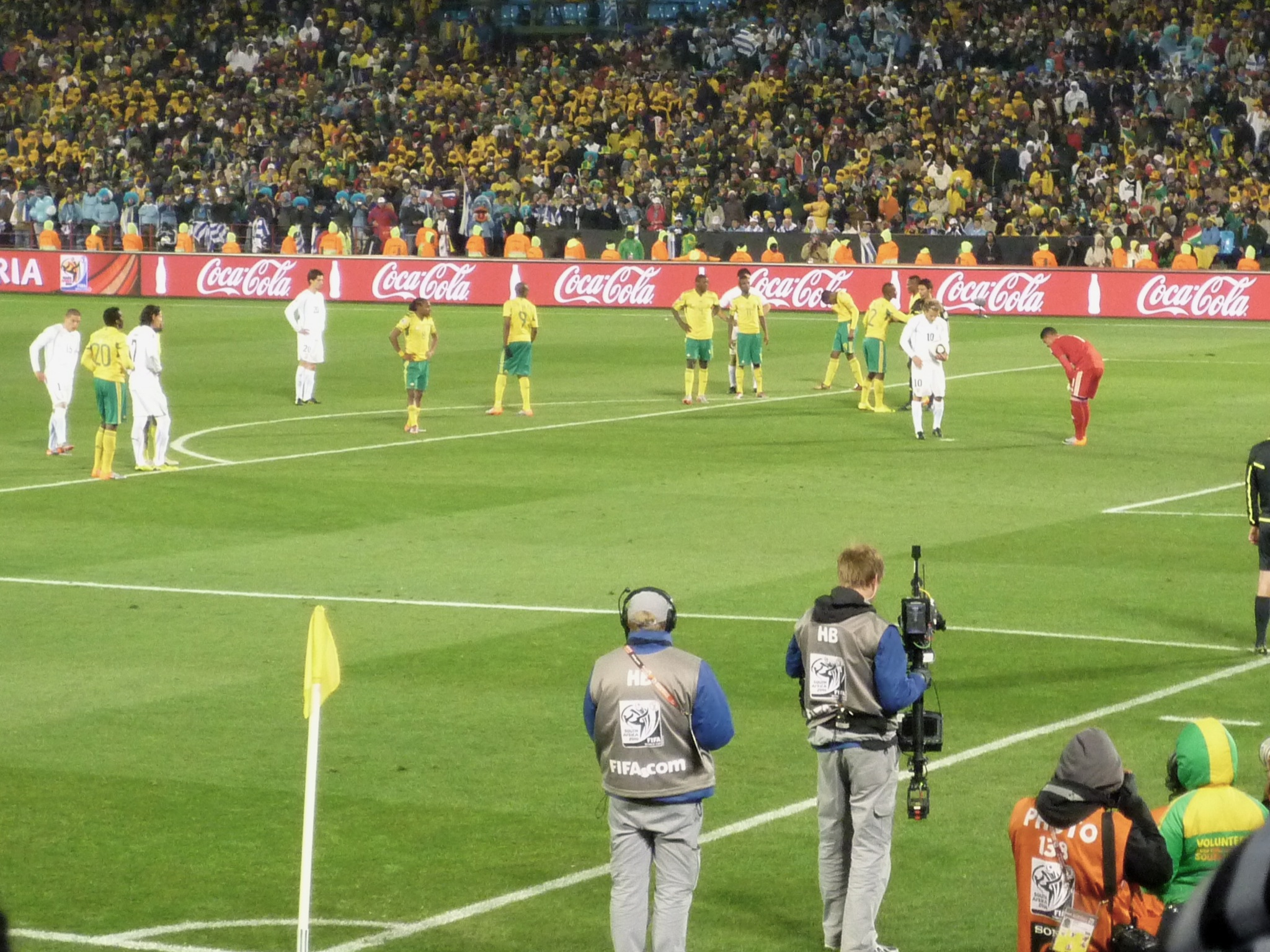 Diego Forlan at penalty mark during the game between South Africa and Uruguay at FIFA World Cup 2010, 16 June 2010, Loftus Versfeld Stadium, Pretoria